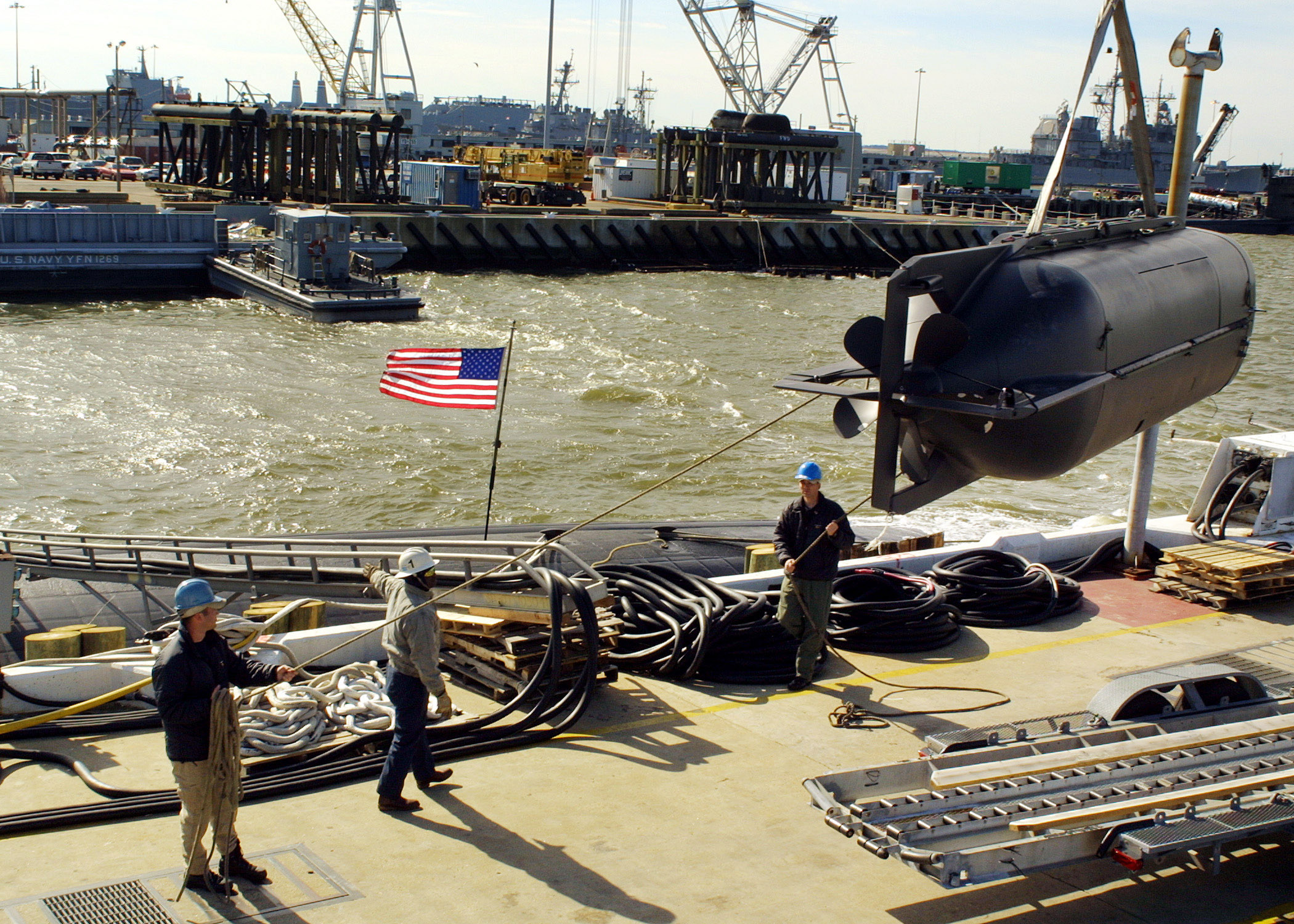 Norfolk, Va. (Feb. 6, 2006) - A SEAL Delivery Vehicle (SDV) is loaded aboard the Los Angeles-class fast attack submarine USS Dallas (SSN 700) in preparation for a Special Warfare Training exercise. SDV is a "wet" submersible, designed to carry Seals and their cargo in fully flooded compartments to provide a dry environment while preparing for special warfare exercises or operations. U.S. Navy photo by Chief Journalist Dave Fliesen (RELEASED)